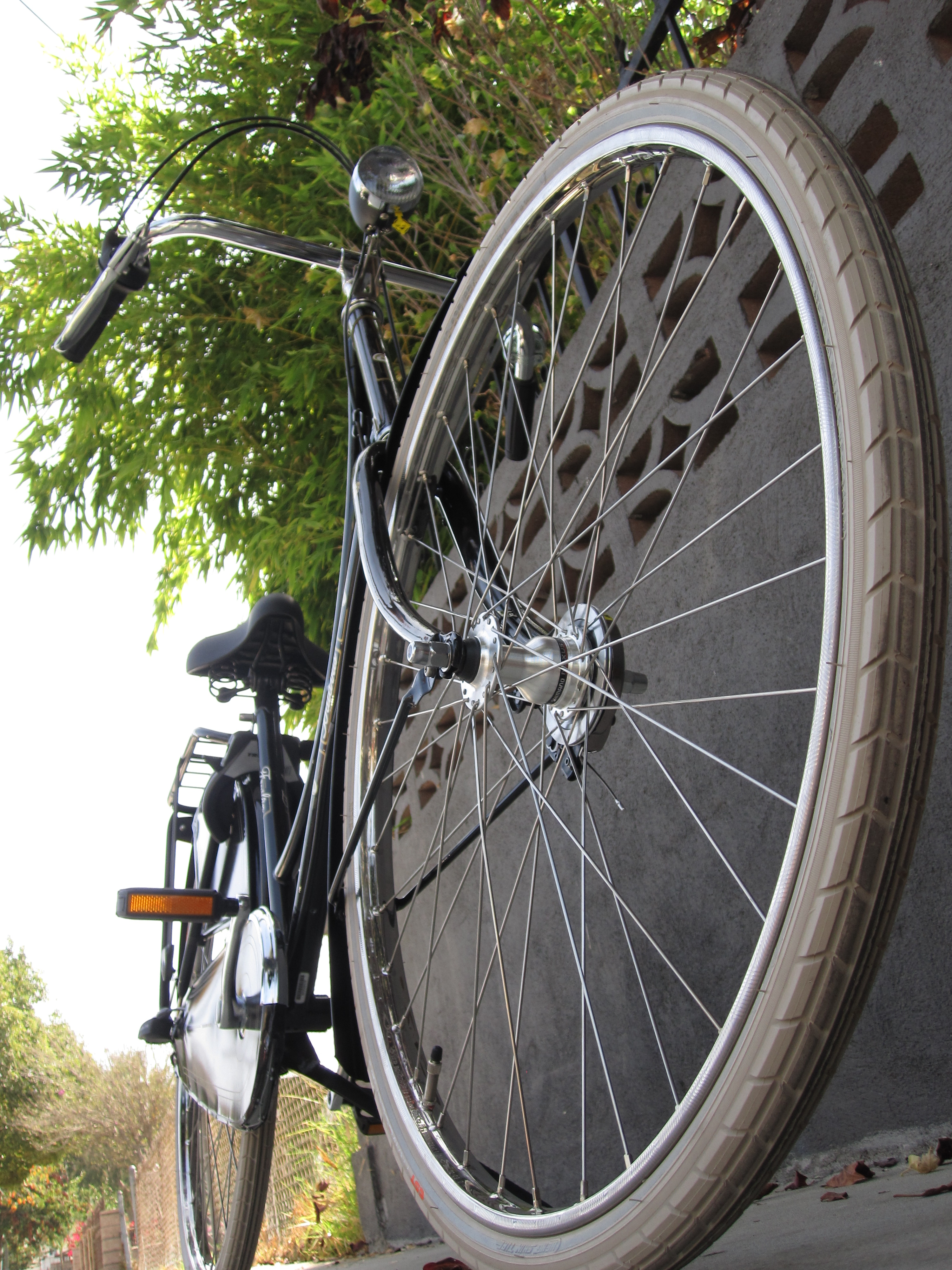 More info @ Front wheel size 40-635 (28 × 1½), Shimano Nexus front hub and "roller" drum brake.